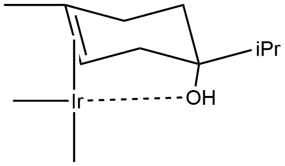 Directing Effects of an OH group on Enantioselectivity of Hydrogenation by Crabtree's Catalyst